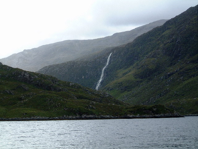 Eas a Chual Aluinn from Loch Beag. Highest waterfall in Britain.